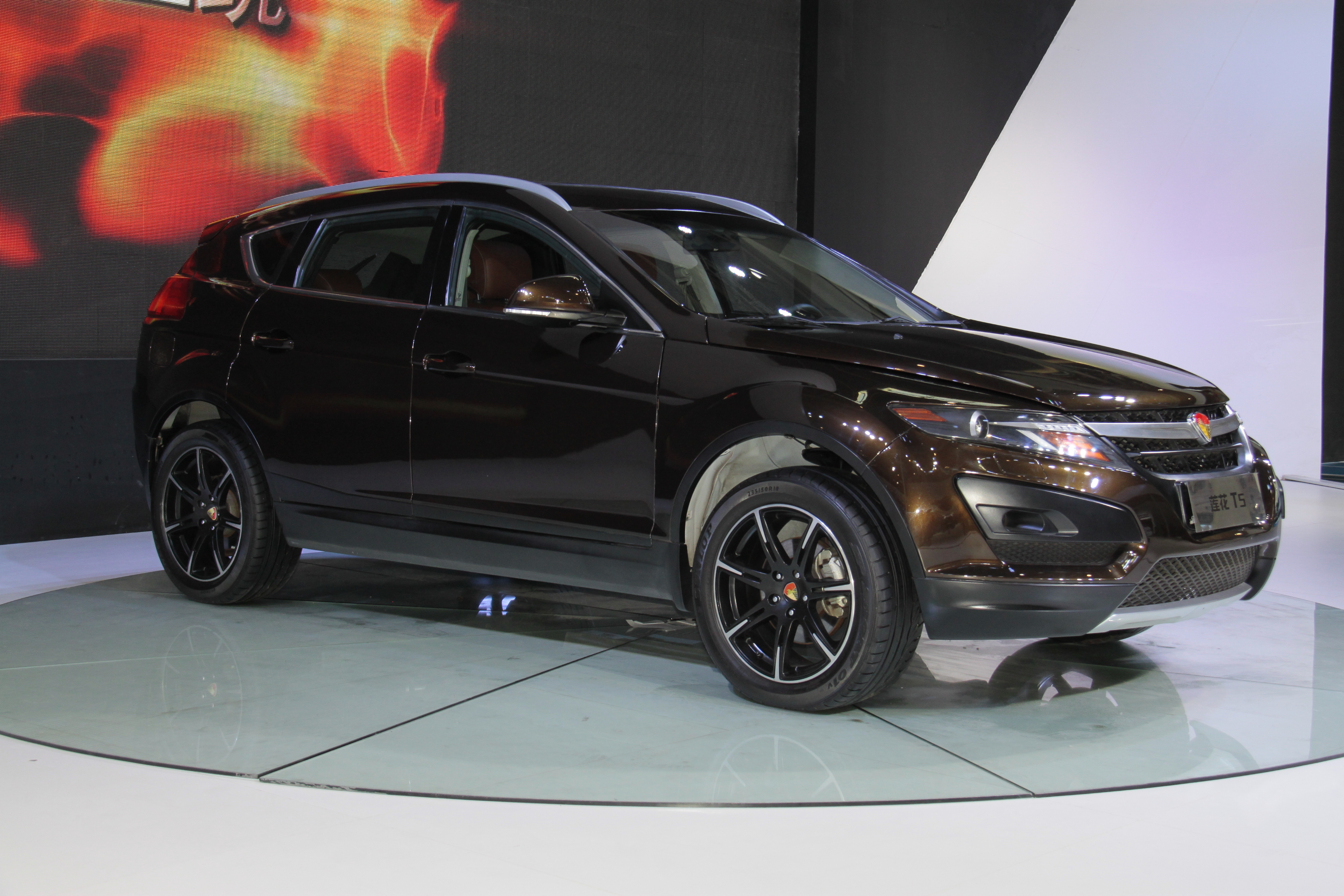 Youngman Lotus T5 at Auto China 2014 (Beijing)